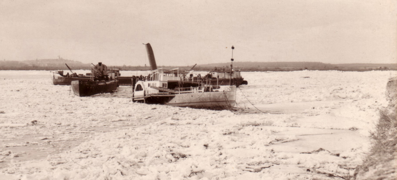 The sinking of the steam trainer Zemun, the Austrian First Danube Steamboat Company, who sank due to ice break in Čukarički zimovnik on March 16, 1929.